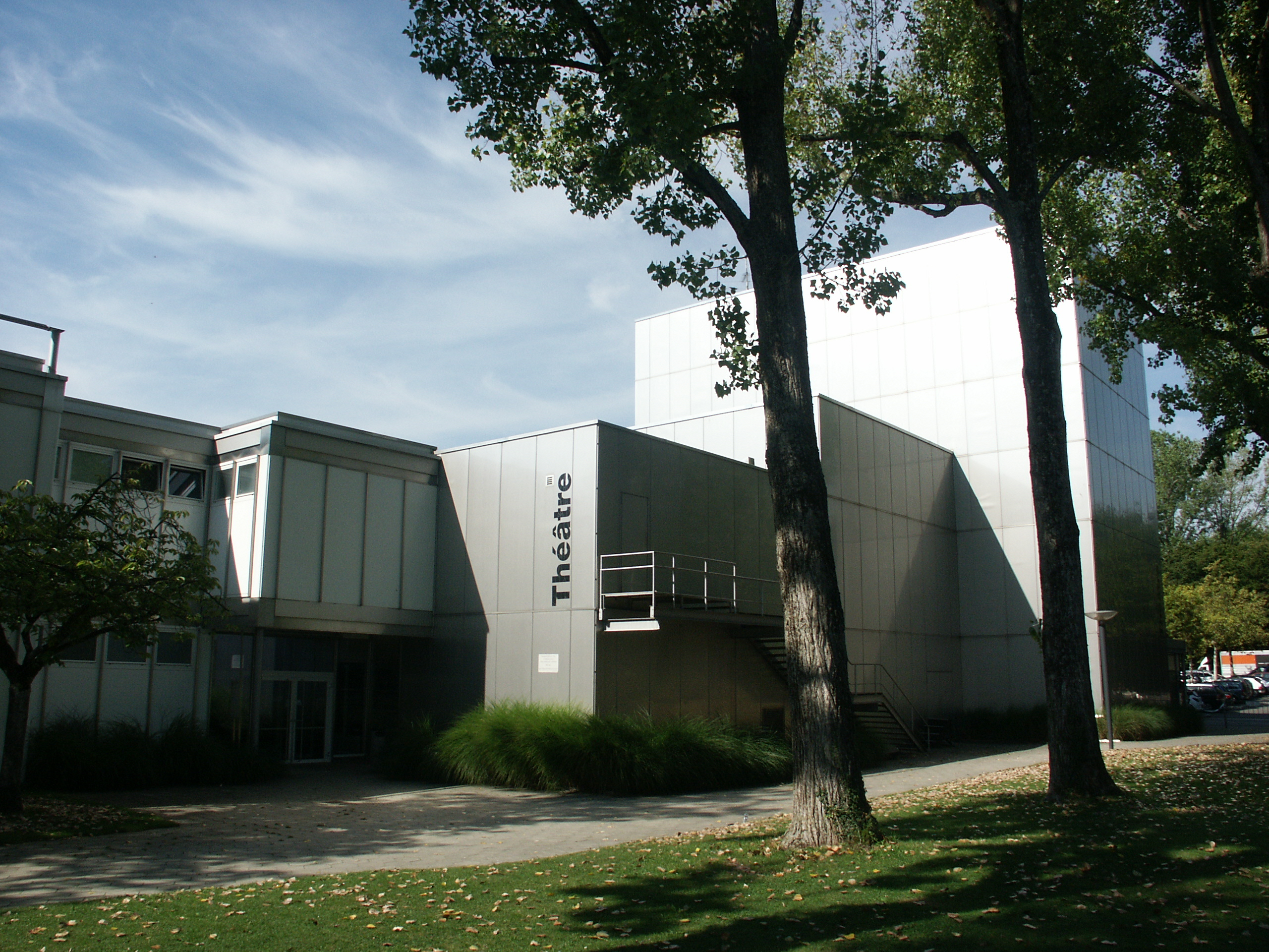 Building designed by the architect Max Bill for the Swiss national exposition of 1964.